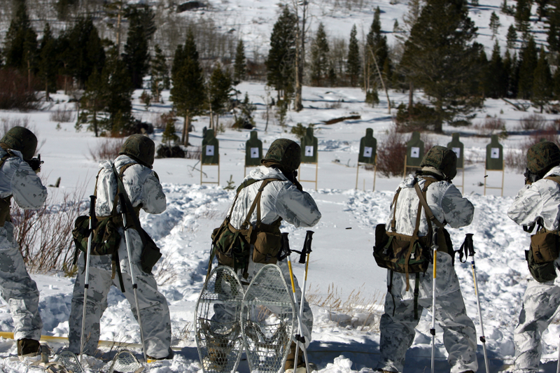 Marines from Company K, 3rd Battalion, 5th Marine Regiment, 1st Marine Division conduct combat marksmanship proficiency drills during the winter mountain operations course at the Mountain Warfare Training Center in Bridgeport.